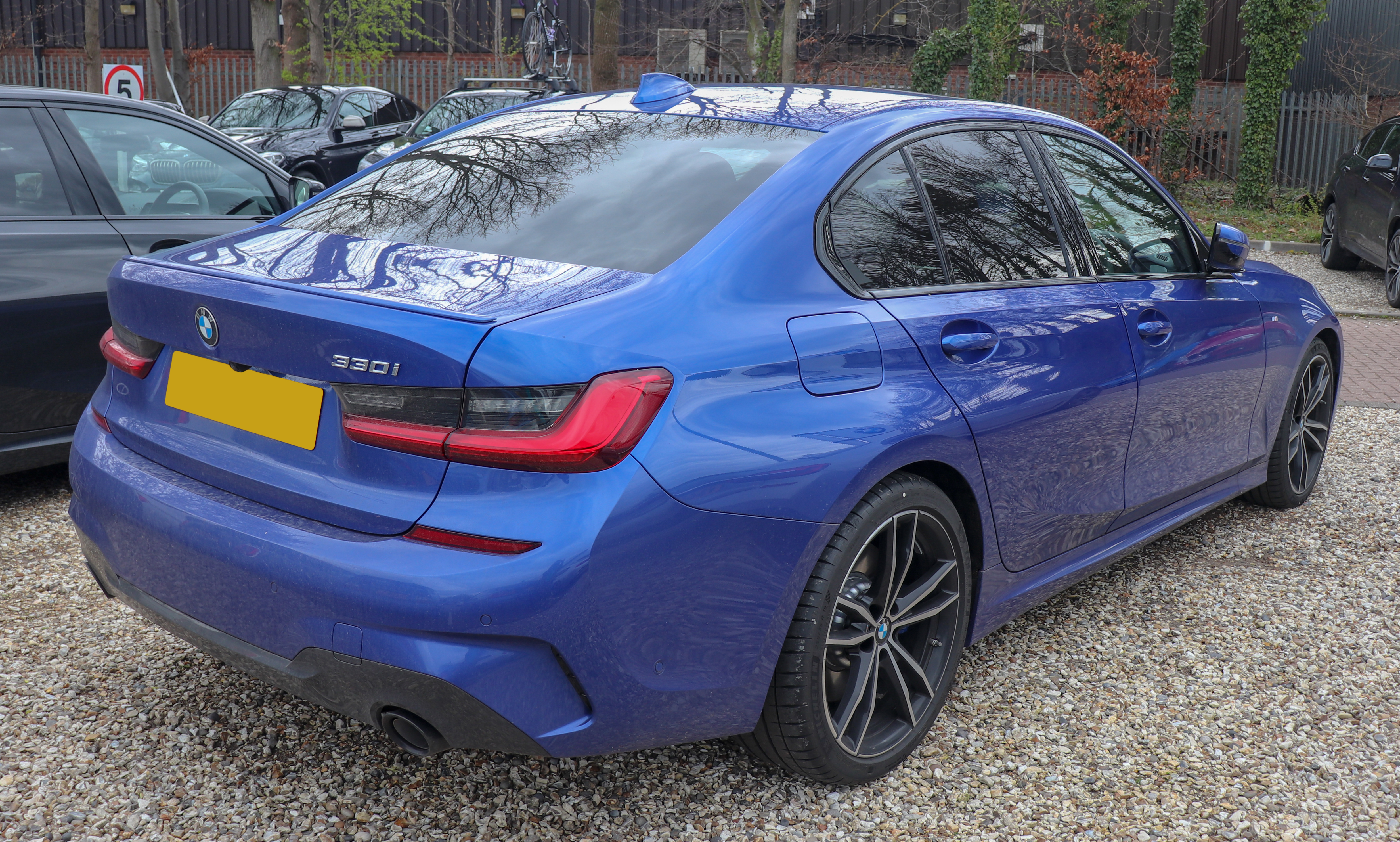 2019 BMW 330i M Sport 2.0 Rear Taken in Leamington Spa